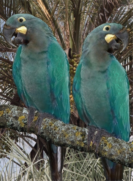 A digital recreation of Anodorhynchus glaucus. The background with Butia yatay is courtesy of , by Andrés González.